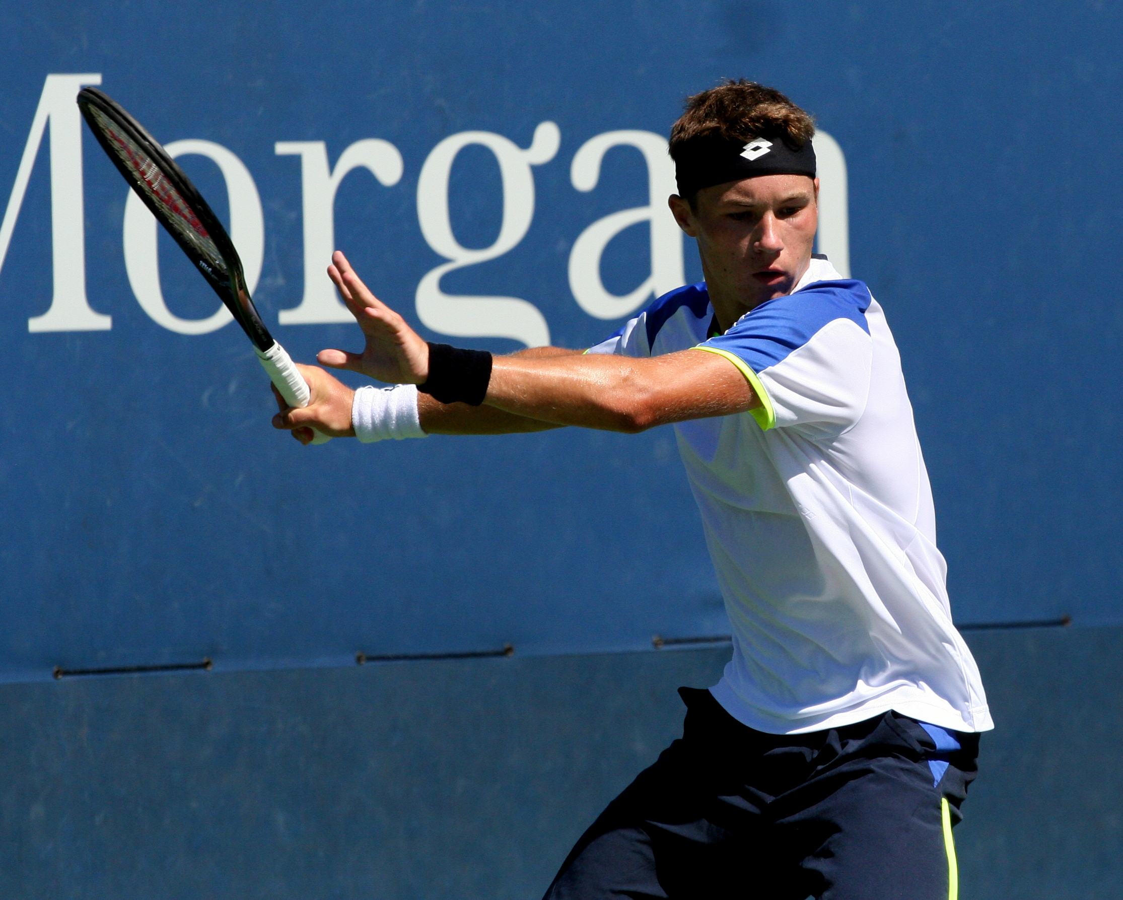 U.S. Open Juniors Wednesday, Sept. 4, 2013